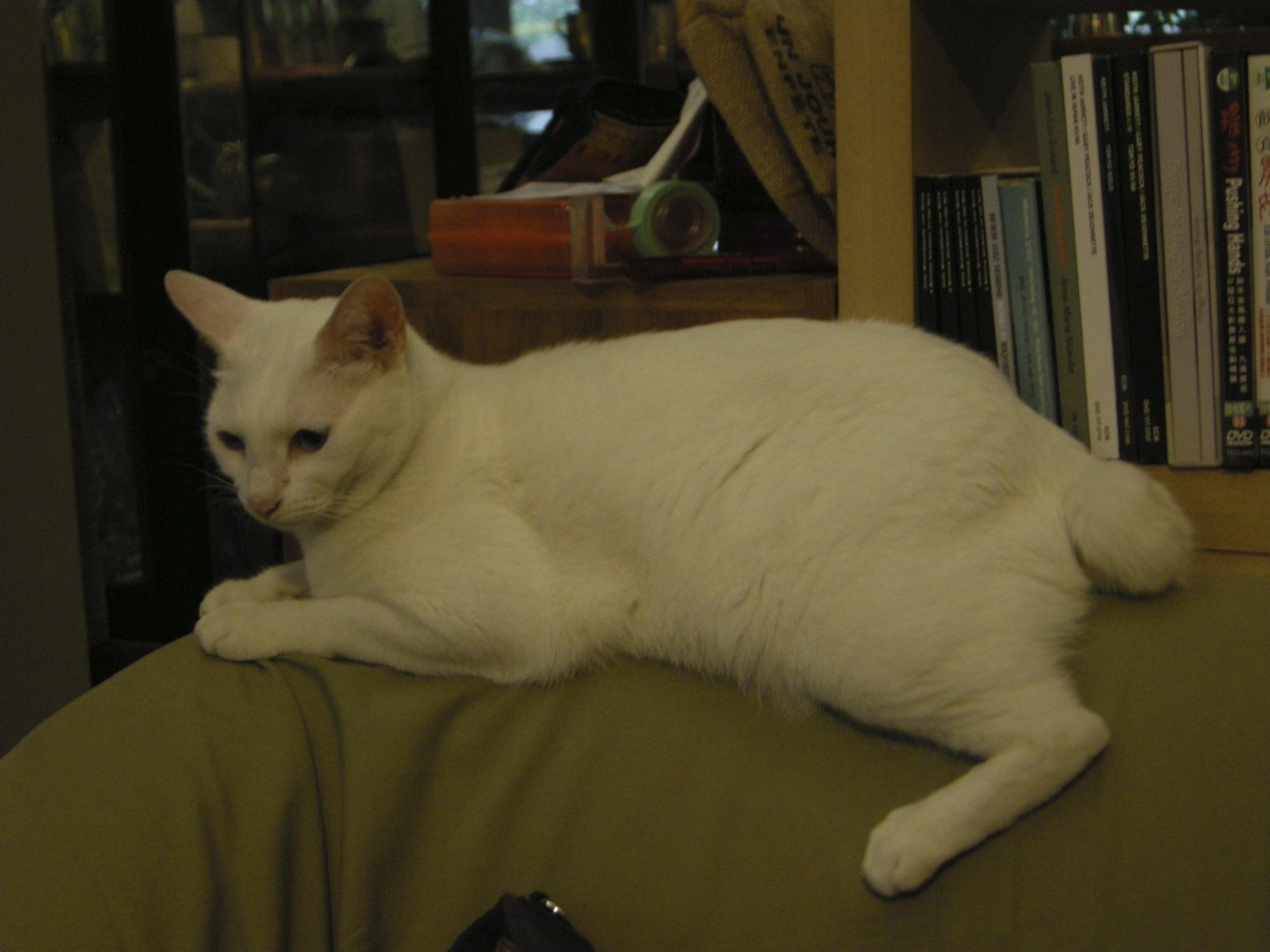 A white Japanese Bobtail cat.